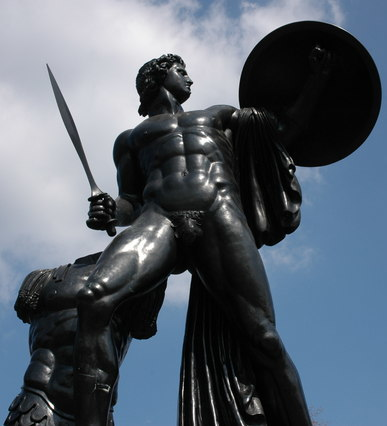 Statue of Achilles in the corner of Hyde Park is in memory of the Duke of Wellington.